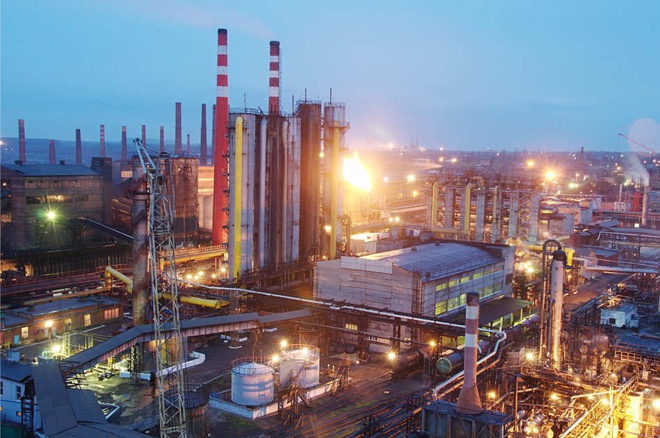 bvfrtg